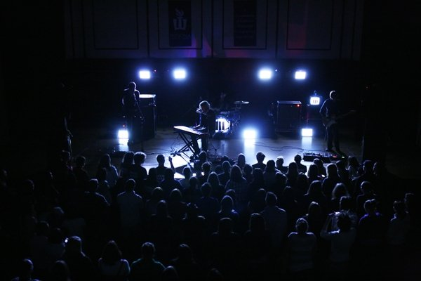 We The Living (band) playing at Winona State University on Nov 13, 2008